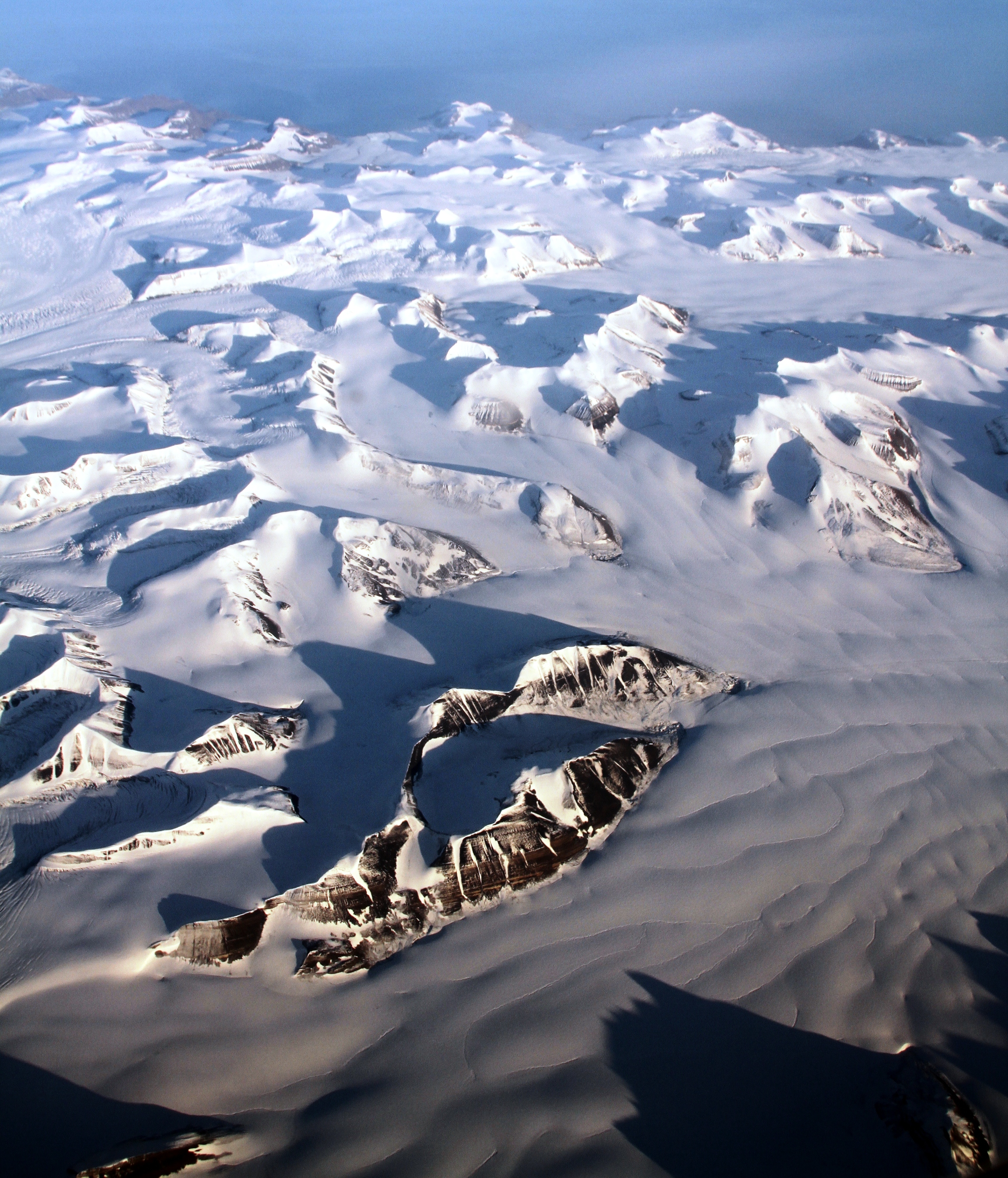 Aerial view of Torell Land - southeastern Spitsbergen - Svalbard. Photo taken from the west towards the east.